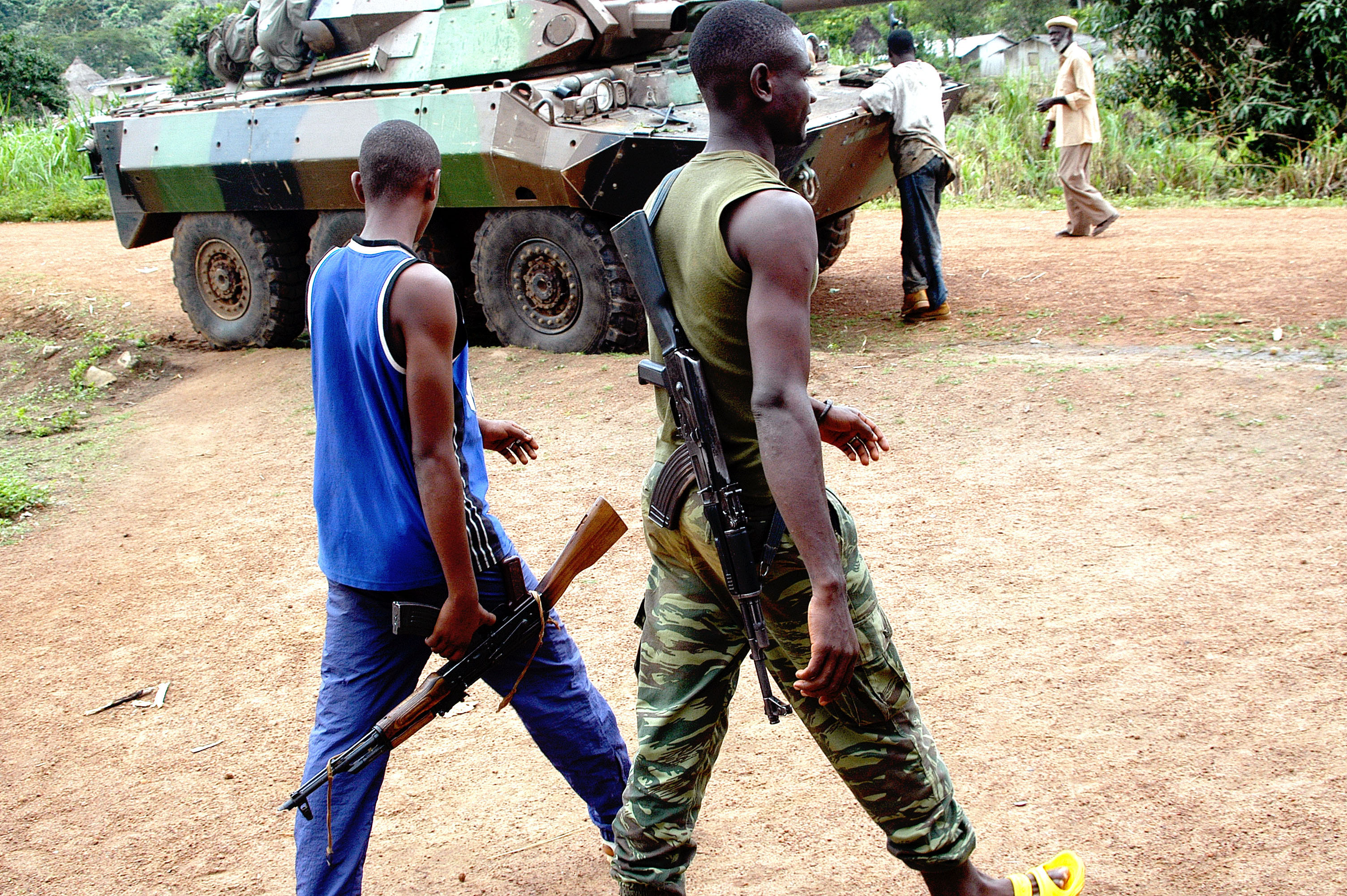 FAFN rebels are marching through an occupied village where a French armored car is standing making sure a strong relationship is kept between the French Foreign legion and the rebel troops.